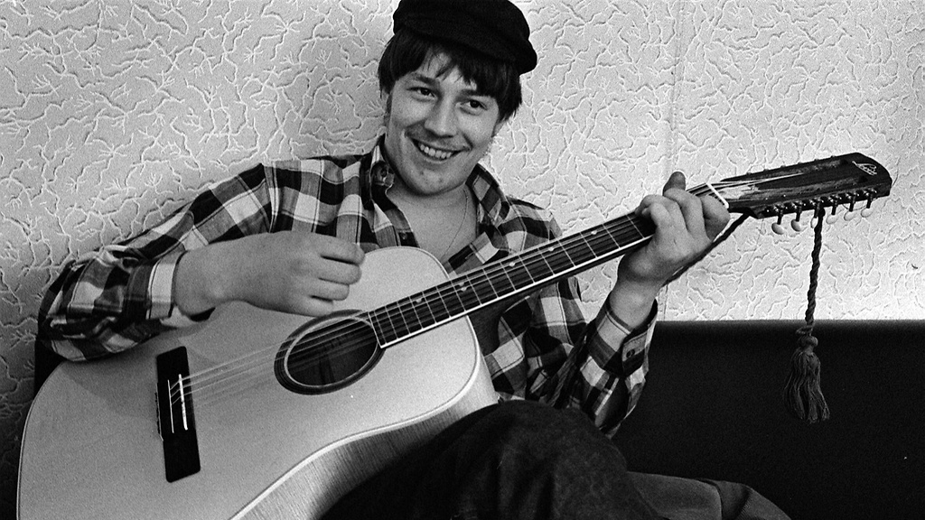 Publicity photograph of the Finnish singer Antti Hammarberg alias Irwin Goodman (1943–1991)